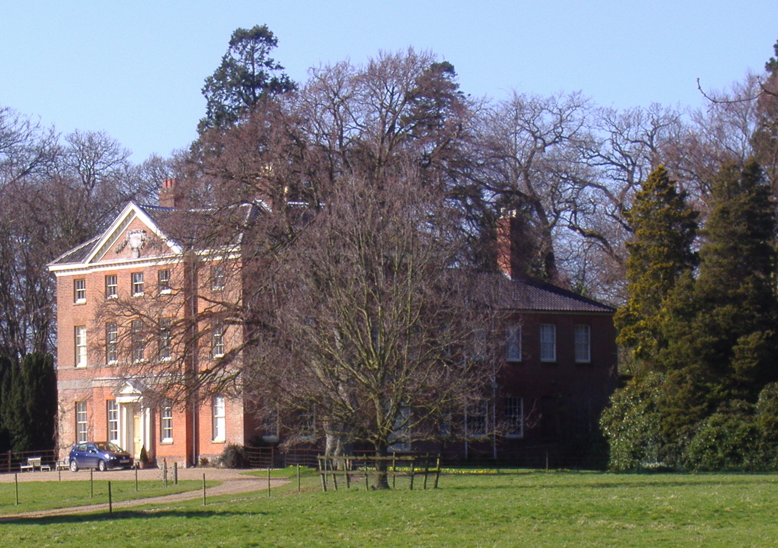 Honing Hall, Honing, Norfolk. The Hall was built in 1748 for Andrew Chamber, a Norwich Worstead Weaver. it was altered and improved by the architect John Soane in 1788. In 1792 Humphrey Repton was commissioned to improve the grounds and gardens around the House